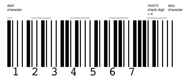 Diagram of an MSI barcode for the digit sequence 1234567